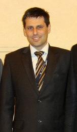 Michael Hrbata at the Senate of the Czech Republic .